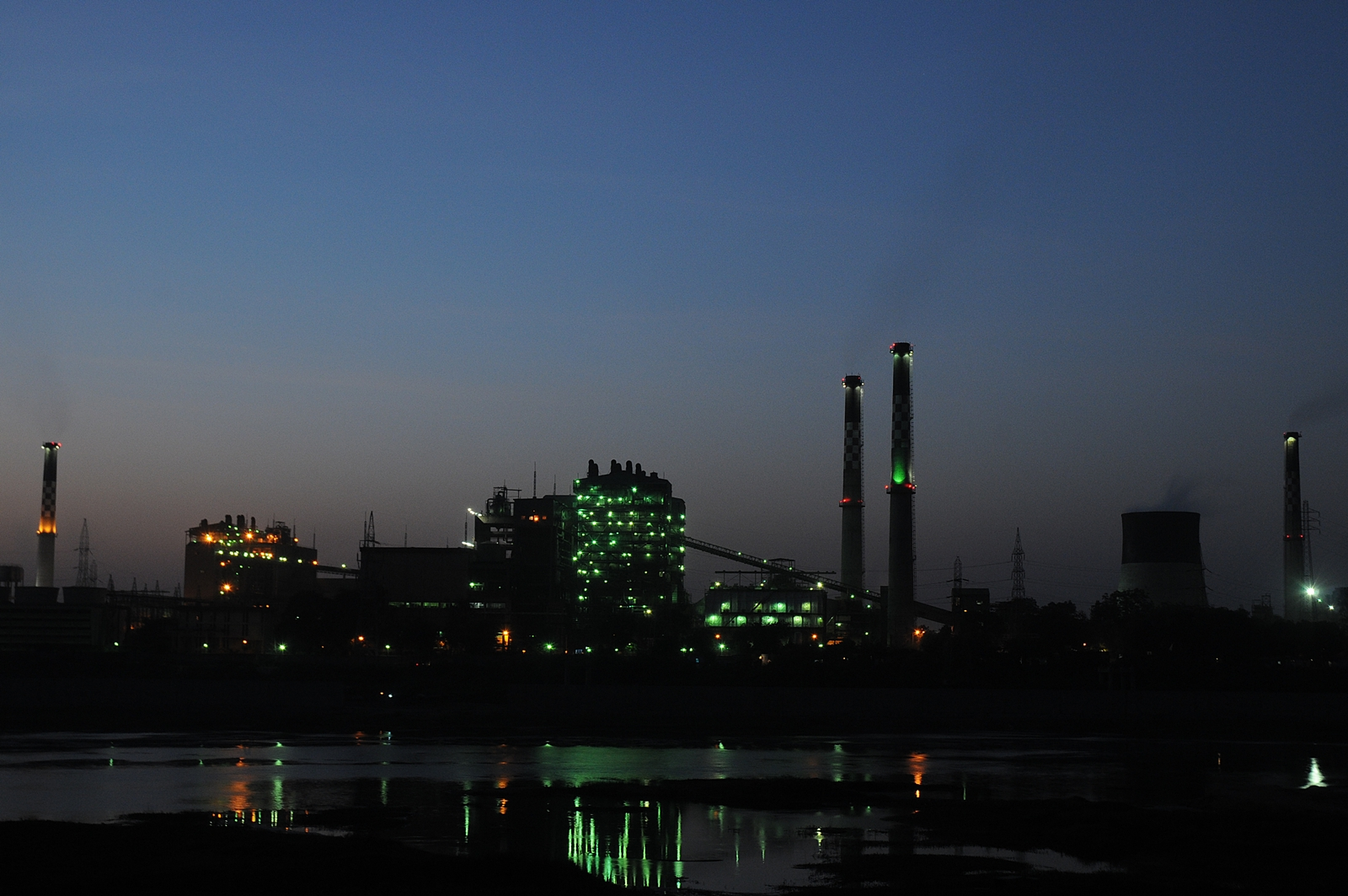 The Sabarmati Thermal Power Station situated on the banks of River Sabarmati, made famous by Mahatma Gandhi's Ashram by the same name is not only one of the oldest Thermal Plants in the country (1934), but also one of the most well run. This view from the Lawns of the IPS, Ahmedabad is simply captivating!